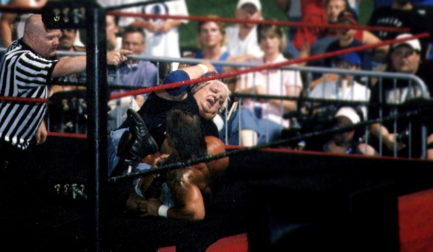 Dusty Rhodes vs. Kid Kash from the Ballpark Brawl in Buffalo, NY 7-15-05